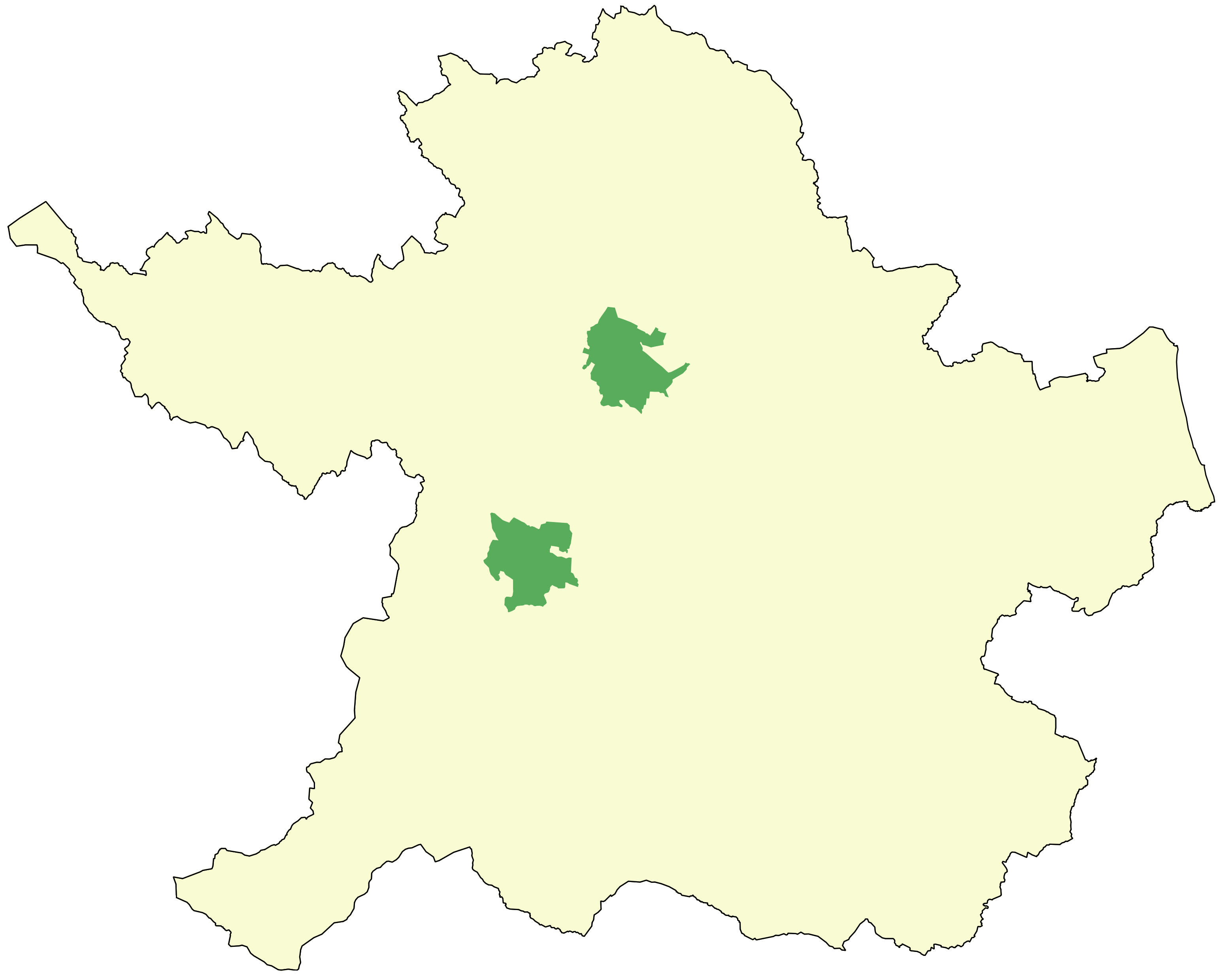 Baile Ghib and Rathcairn in Meath